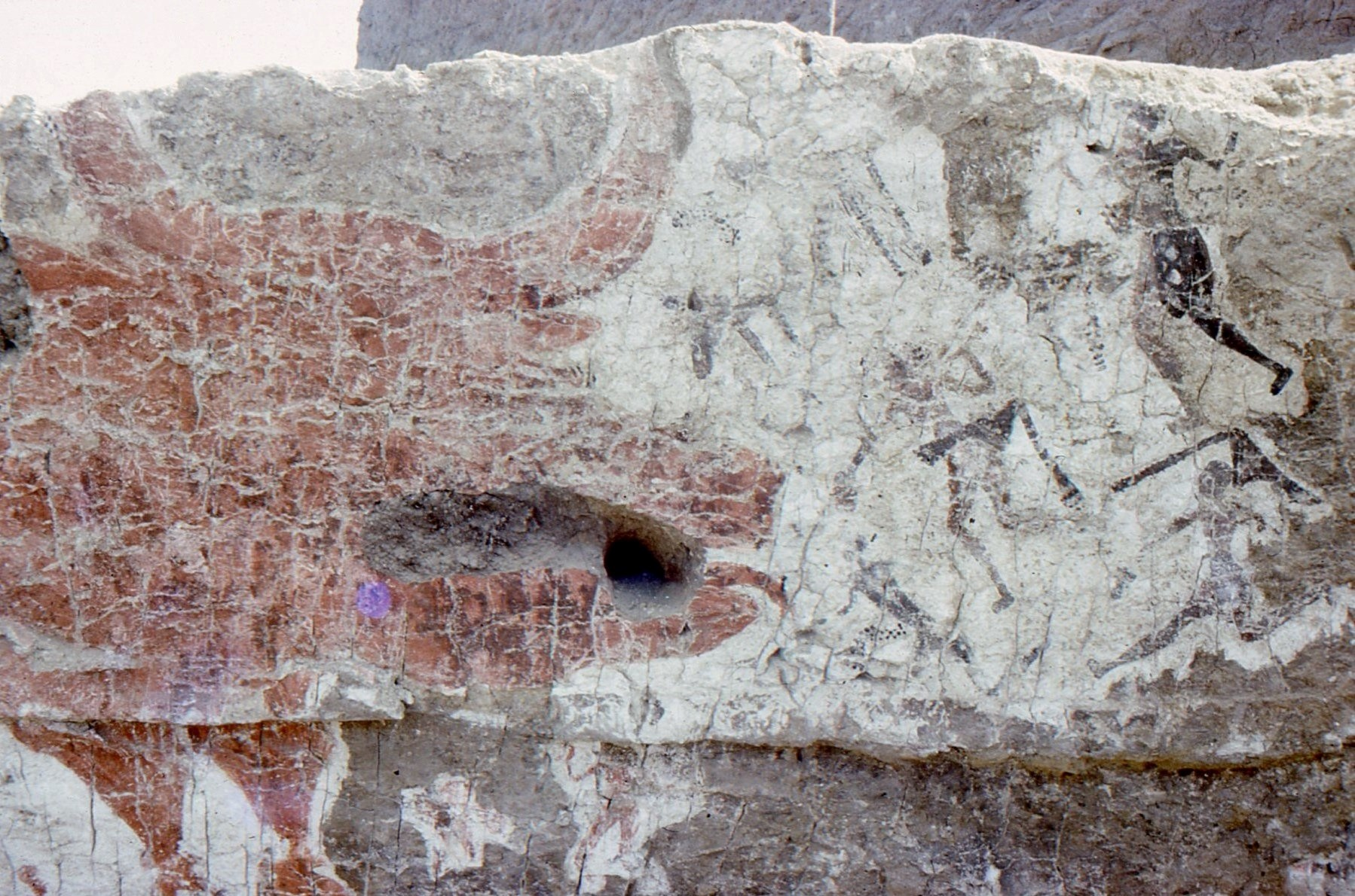 Aurochs hunting mural in Çatalhöyük Çatalhöyük excavated by James Mellaart.